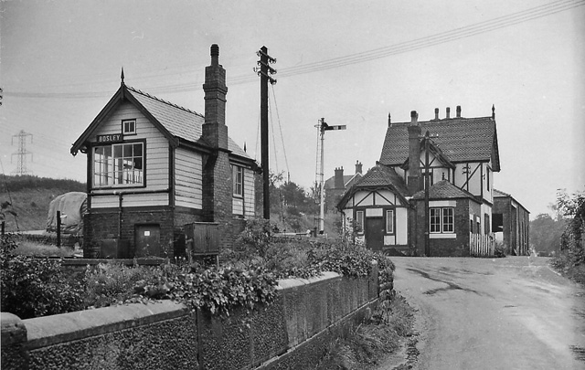 Bosley railway station (converted? View southward, towards Leek and Uttoxeter; ex-NSR (Macclesfield) - North Rode - Leek - Uttoxeter (Churnet Valley) line. Passenger services on the line ceased 7/11/60, but goods continued North Rode - Leek until 15/6/64. Note the characteristic North Stafford architecture.